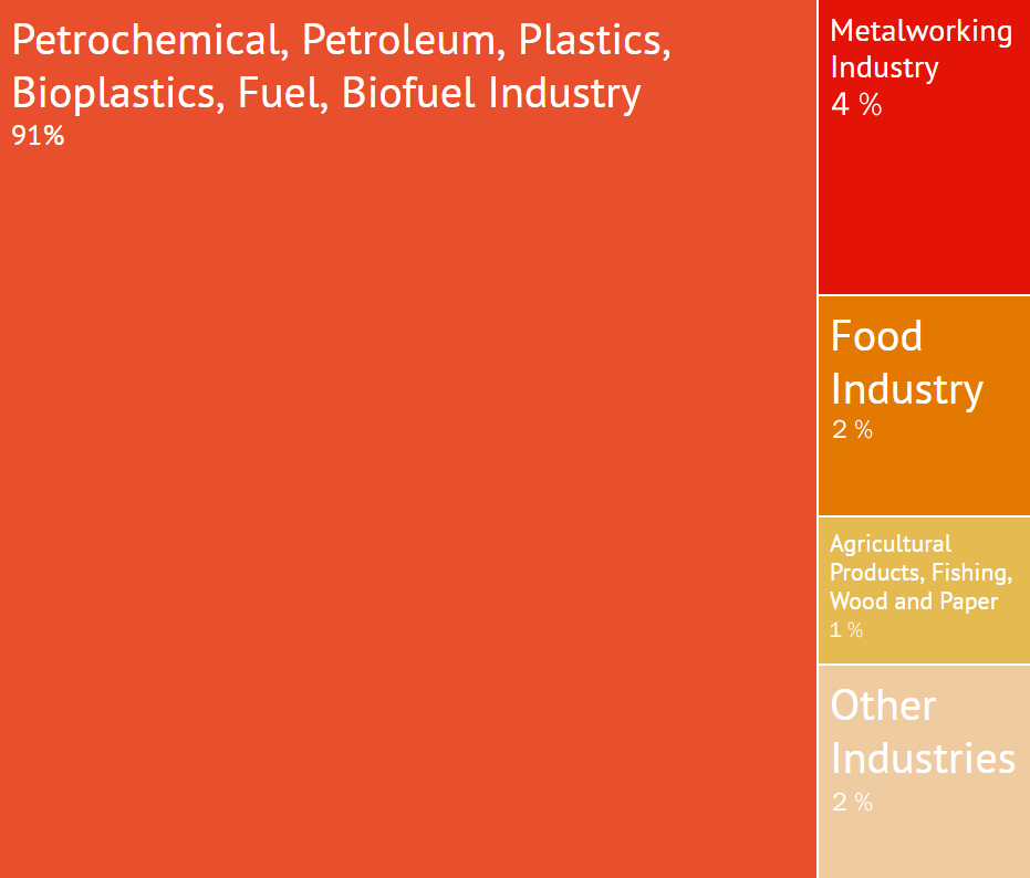 Exports of Sardinia 2012-13 ISTAT 2012-2013 ATLANTE Competitività – Unioncamere Istituto Tagliacarne